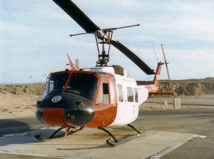 a US Army UH-1H Huey helicopter on the MFO South Camp flight line, Naama Bay in 1989.